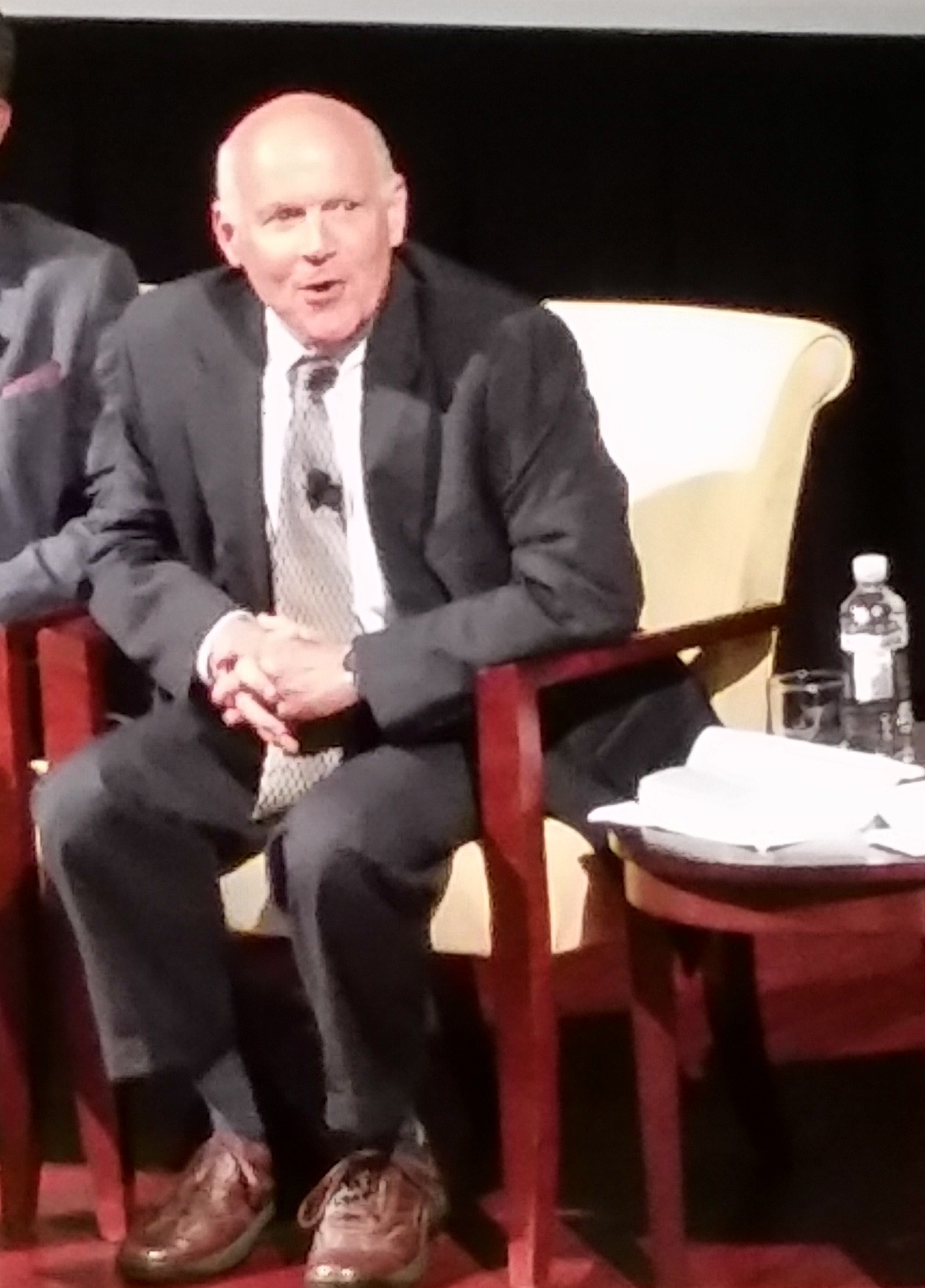 Edward Linenthal at the National Archives, June 2016